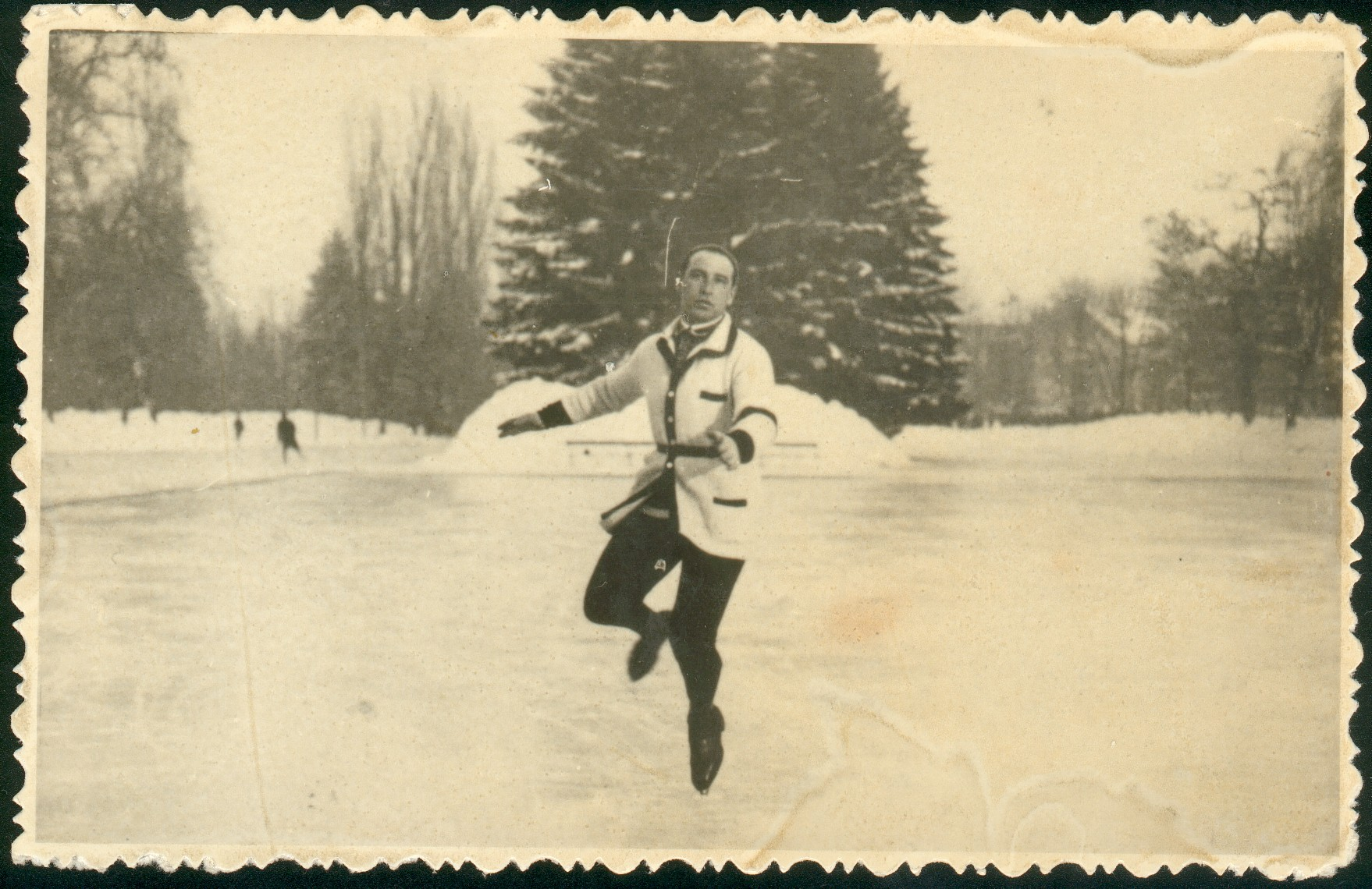 Figure skating Elemér Hirsch